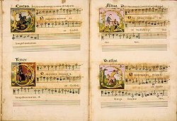 Joan Pau Pujol's score.